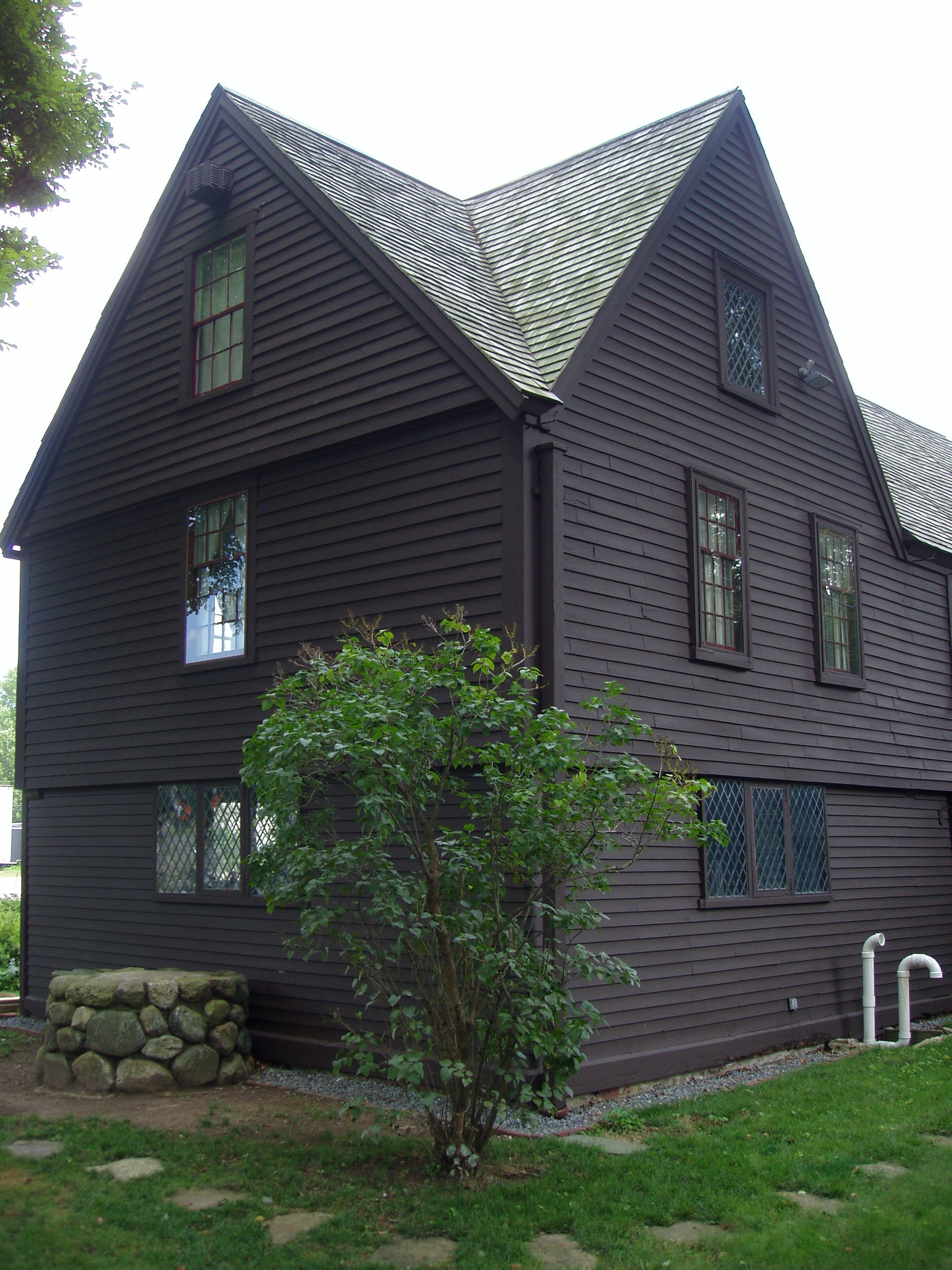 Claflin-Richards House - Wenham, Massachusetts, USA. Rear side view.